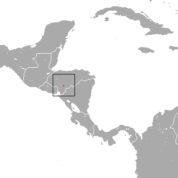 Honduran Small-eared Shrew (Cryptotis hondurensis) range